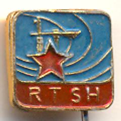 A pin badge of the type given out by Radio Tirana to foreign listeners during the late 1980s.